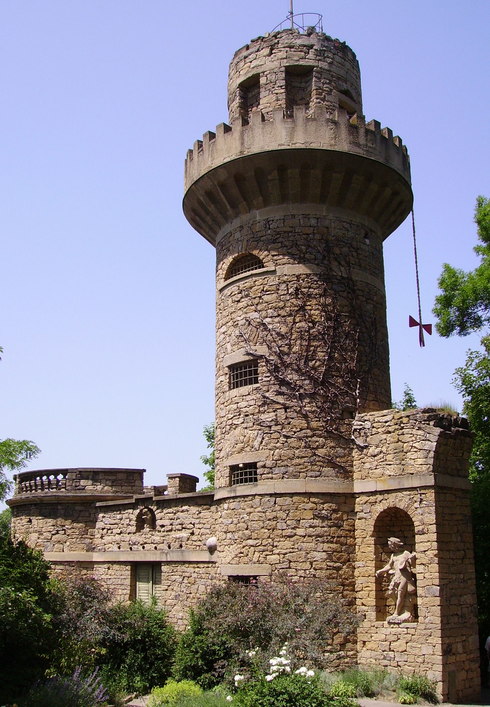 The Emichsburg (castle) in the Märchengarten (fairy tale garden), in the Garden at Schloss Ludwigsburg — in Ludwigsburg, Germany. Source Own photography — Immanuel Giel 12:22, 22 June 2006 (UTC)